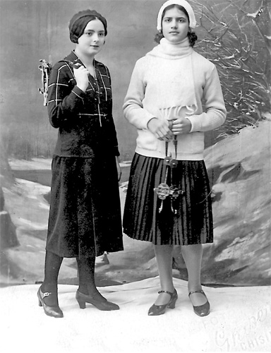 Nina Mateevici and Silvia Murafa, at the skating rink, Chişinău, 1932